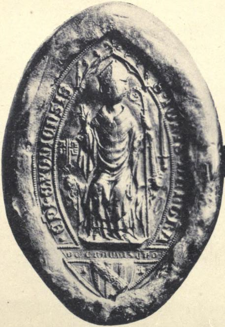 Seal of Thomas de Brantingham (d.1394), Bishop of Exeter 1370-94. The bishop is seated on a throne wearing a mitre, holding in his left hand a crozier and with his right hand giving a sign of benediction with two fingers. At dexter are two keys addorsed, and at sinister a sword erect, forming together the arms of the See of Exeter. Legend in Latin: S(igillum) Jo(han)nis Dei Gra(tia) Epi(scopus) Exoniensis ("seal of John by the grace of God Bishop of Exeter"); Inscribed in Latin beneath the seated figure: De Grandisono, with his arms below (Paly of six argent and azure, on a bend gules three eagles displayed or).